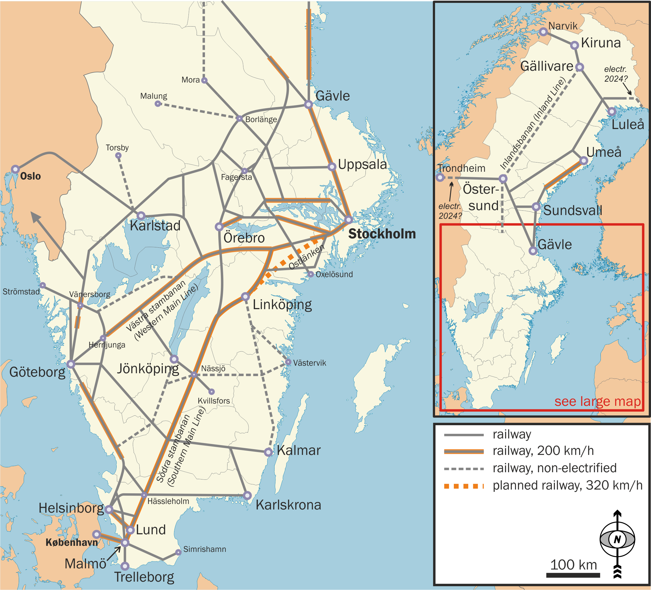 Map of railways in Sweden. Sources used: Boris Chomenko's drawing This other map Overview of important lines Overview of lines where 200 km/h is in use Locations of Swedish cities Source for the background image (slightly modified).